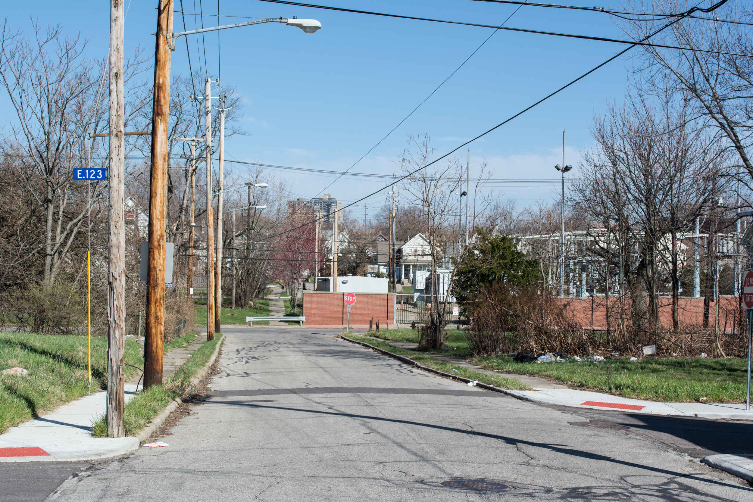 Looking east down Beulah Avenue at the intersection of Beulah Avenue and Lakeview Road in the Glenville neighborhood of Cleveland, Ohio, where a part of the "Glenville shootout" occurred on July 23-24, 1968. In 1968, single-family homes would have stood on both sides of the street. The sidewalk across Lakeview Road is the "alley" where the gunmen fled. In 1968, single-family homes (subdivided into two or more apartments) occupied the site where the the power substation is now. At the beginning of the gun battle, a civilian tow truck was attempting to pick up an abandoned automobile on Beulah Avenue (just behind where the photographer is standing). About 8:25 PM, four or five gunmen appeared at the intersection depicted, and one gunman shot the tow truck driver in the back. Another gunman, hiding in bushes, rose up and shot him again. The driver ran north on E. 123rd Street, and was shot a third time. An unmarked police arrived, and exchanged gunfire with a group of four gunmen -- who were standing on the north and south sides of the intersection of Beulah Avenue and Lakeview Road (at the stop sign and the other corner to the left of it). Gunman Leroy Mansfield Williams was killed near the stop sign at about 8:30 PM. His body lay on the sidewalk until he was borne away by friends around 9:15 PM, and taken to Huron Road Hospital. He was pronounced dead on arrival. The police vehicle on Beulah Road fled, and the gunmen fled, too -- crossing Lakeview Road to occupy a home at 1395 Lakeview. They ran down the sidewalk-alley (visible in the background) to get behind the residential homes. Another sidewalk-alley led south, and they fled down it. The Glenville shootout sparked rioting on July 23 which lasted until July 27. More than 2,100 Ohio Army National Guardsmen had to be called in to quell the rioting.